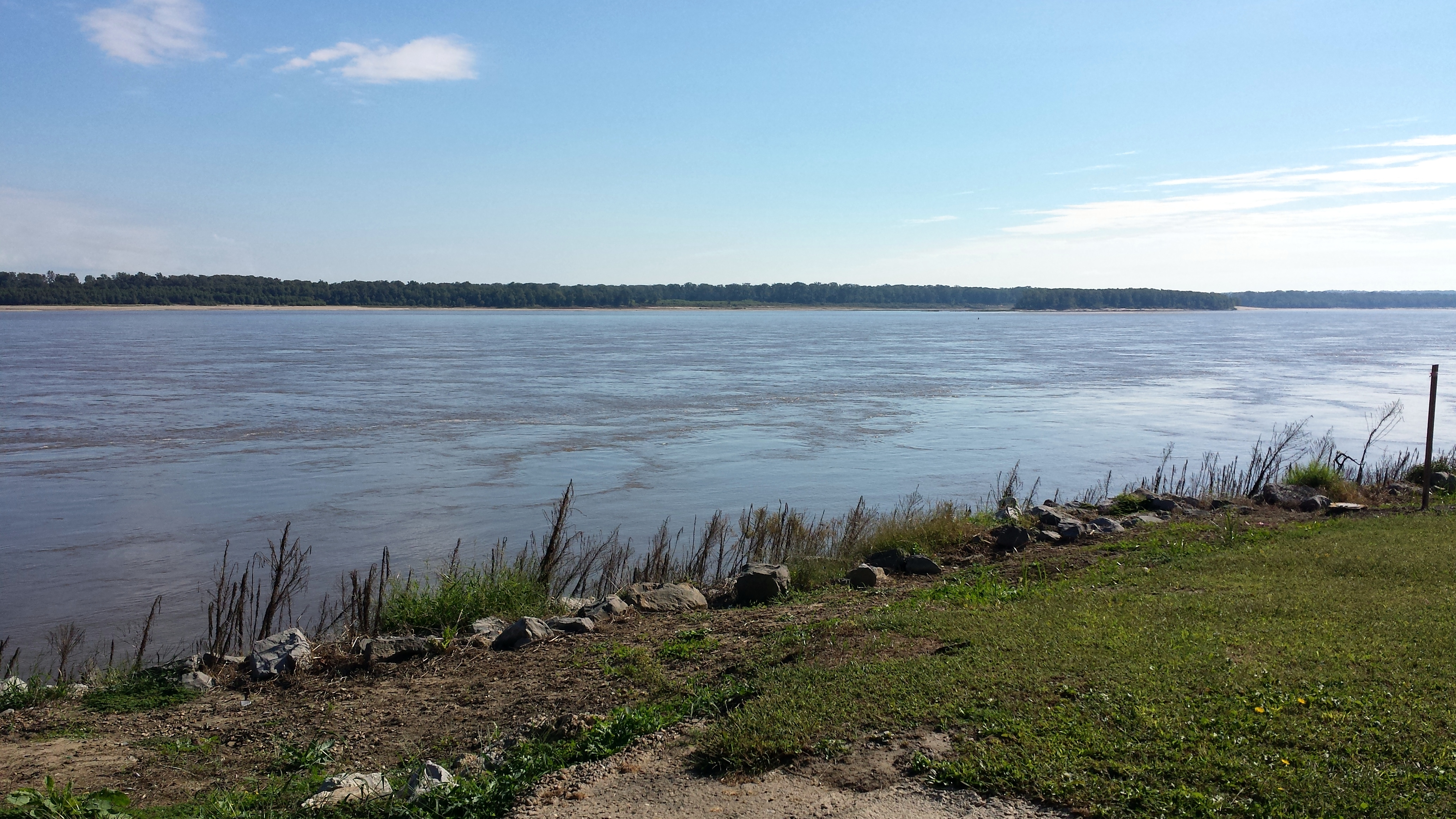 View of Mississippi River